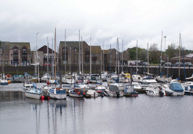 Boats at Nairn. the sailing set